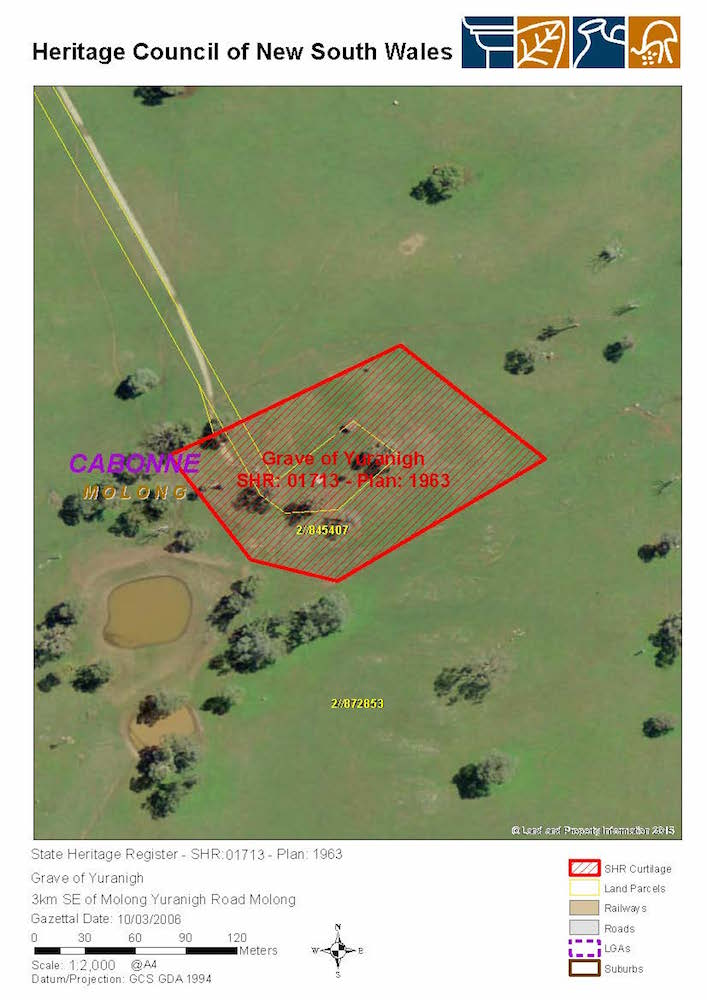 Grave of Yuranigh: SHR Plan 1963